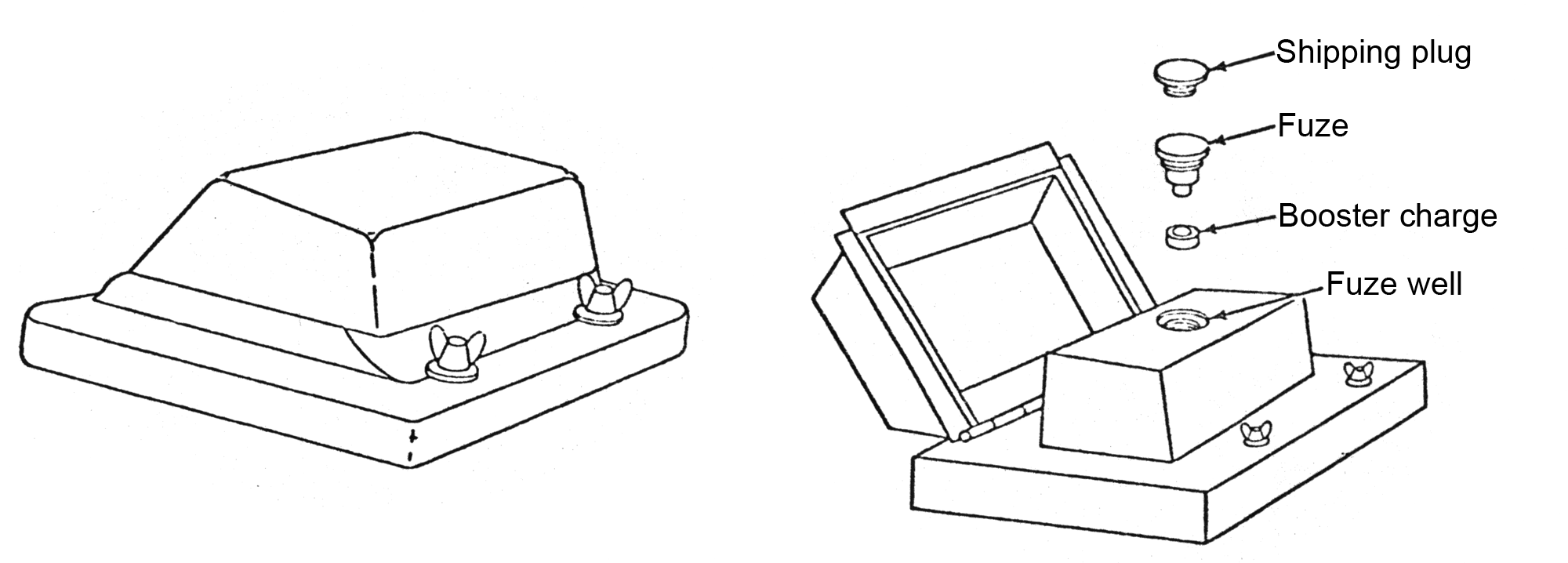 A diagram of a French Mle 1935 (Model 1935) heavy anti-tank mine